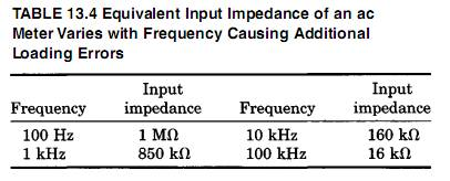 Equivalent Input Impedance of an ac meter